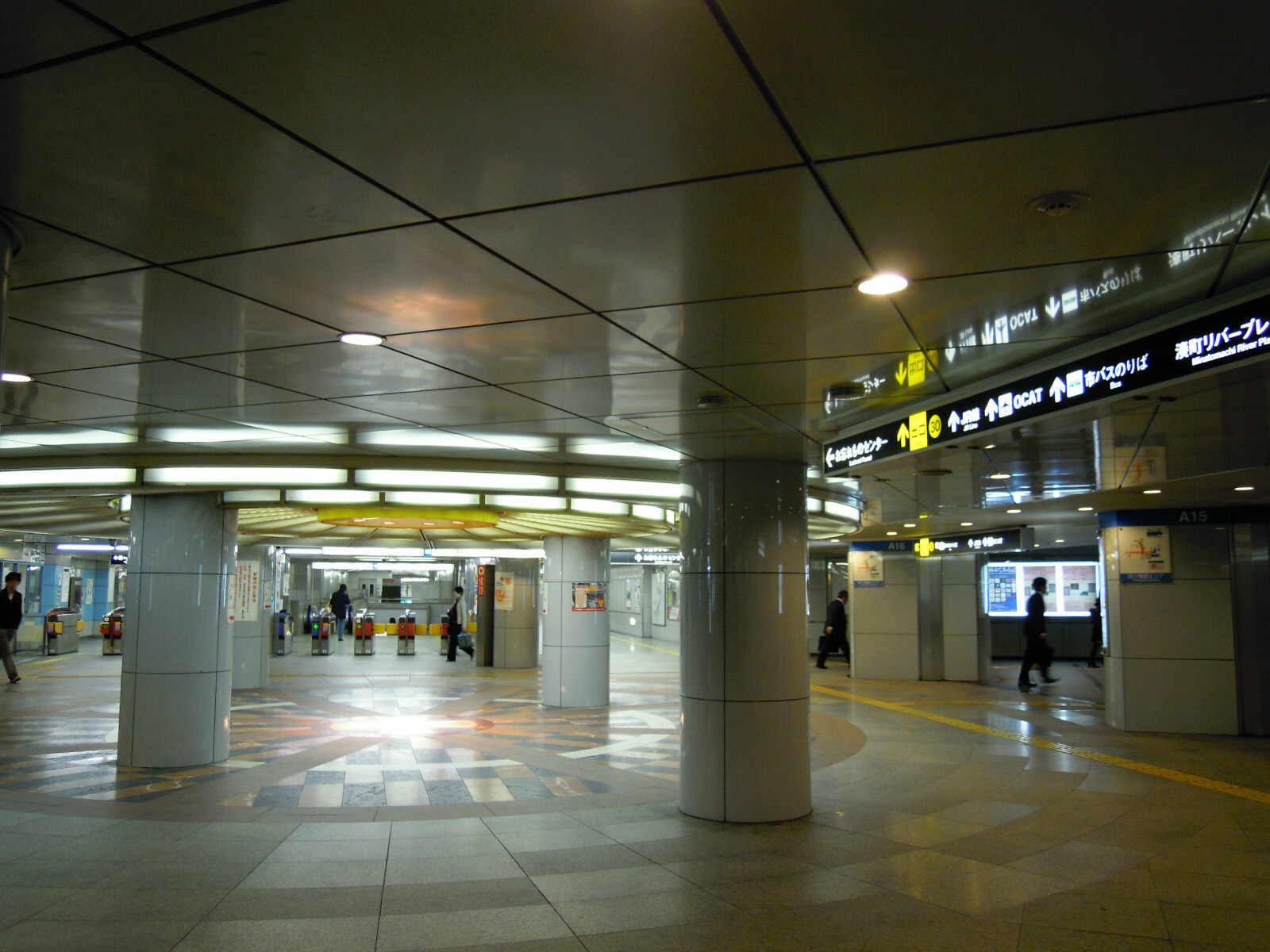 Nanba station